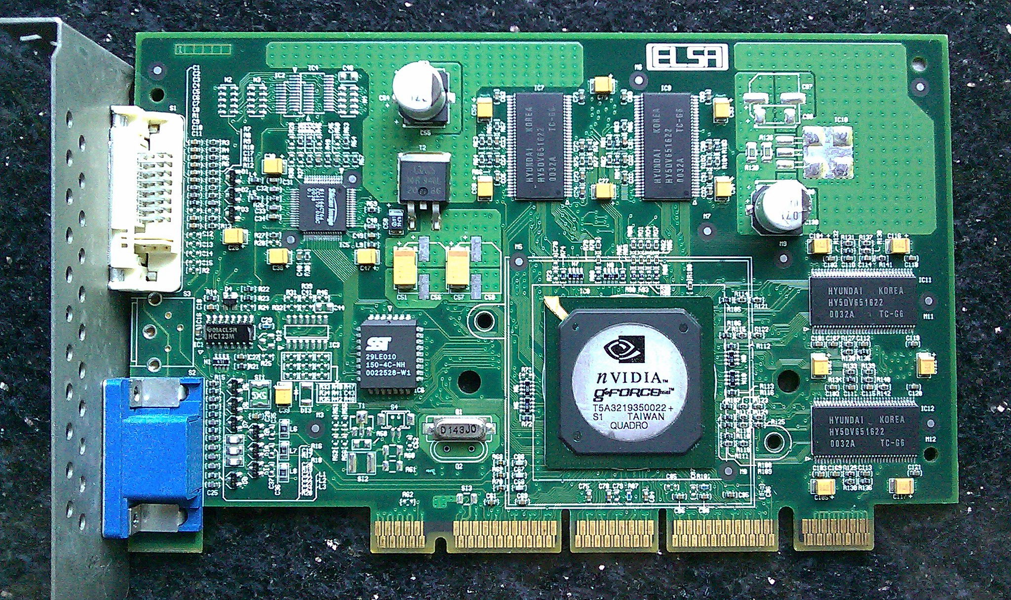 ELSA GLoria II Pro graphic card